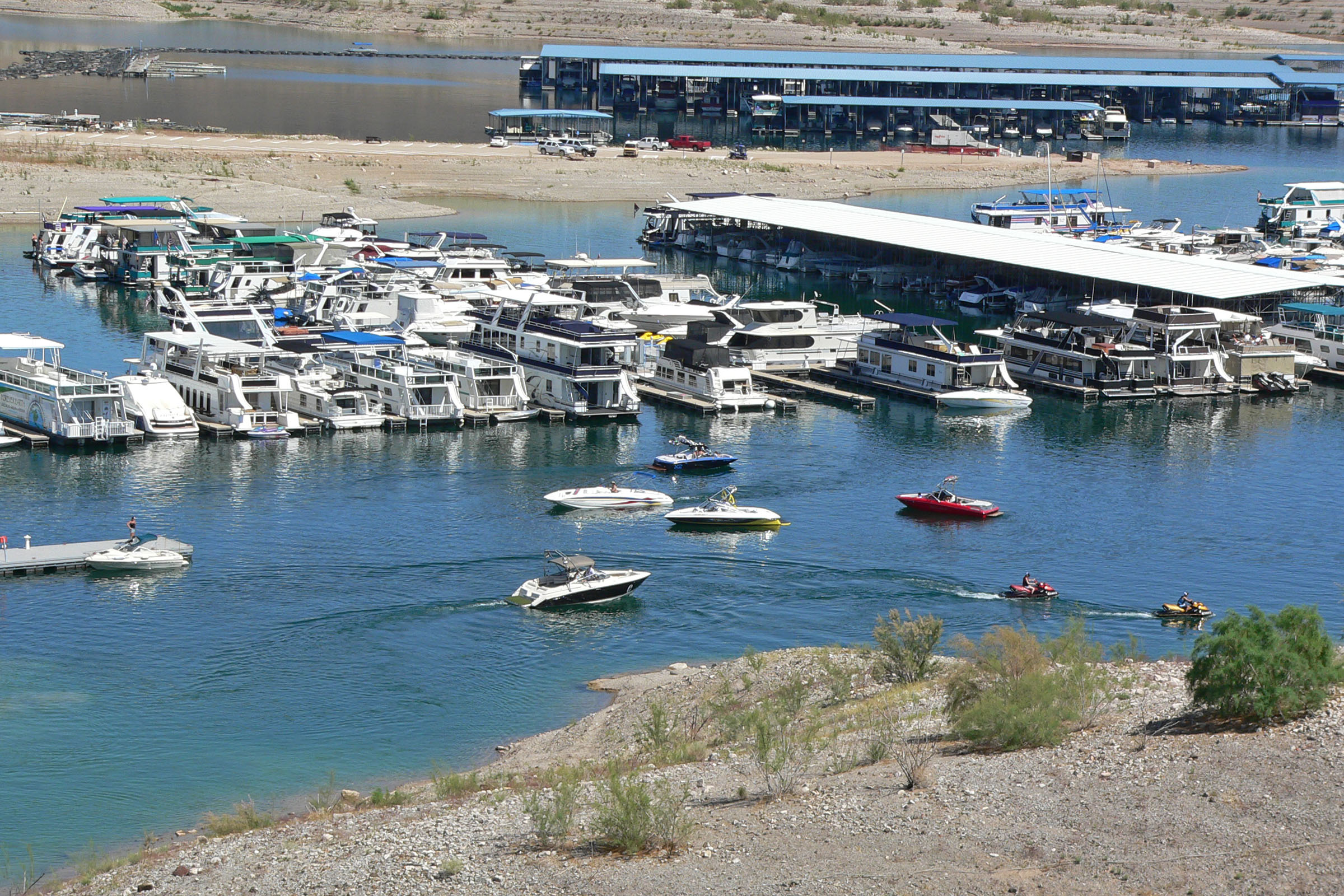 Callville Bay Marina, north shore of Lake Mead, southern Nevada